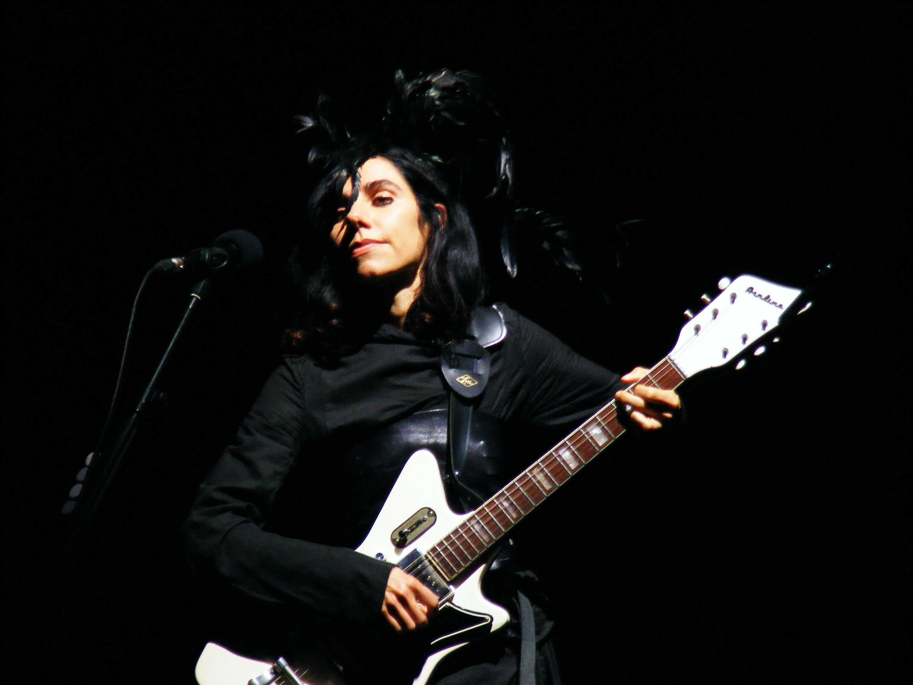 PJ Harvey at the O2 Apollo, Manchester, on Thursday the 8th of September 2011